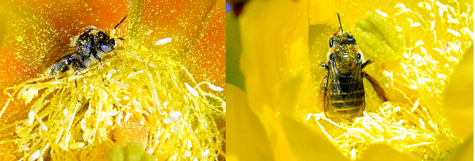 Diadasia bee embraces Opuntia engelmannii Pollen